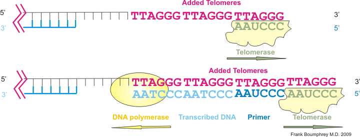 Illustration showing the action of Human Telomerase in lenghtening Telomeres.